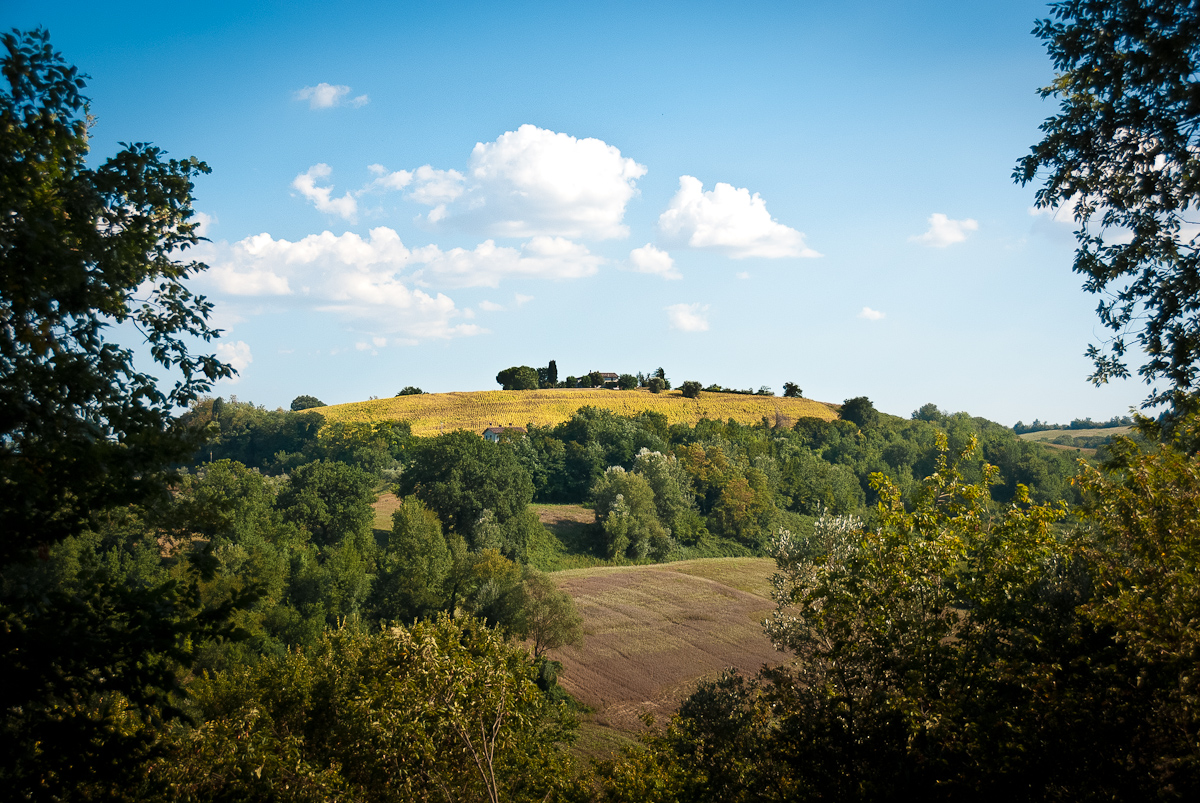 View from a cottage's terrace at Villa valle rosa - Selci, province of Rieti, central Italy